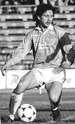 Title: FC Hansa Rostock - 1. FC Magdeburg 0:0 Additional information: Schreibweise des Namens: Rainer Jarohs und vermutlich ebenfalls Jens Jarohs Factual corrections and alternative descriptions are encouraged separately from the original description. Additionally errors can be reported at this page to inform the Bundesarchiv. Original historic description: Dirk Schuster, 1. FC Magdeburg, 1990